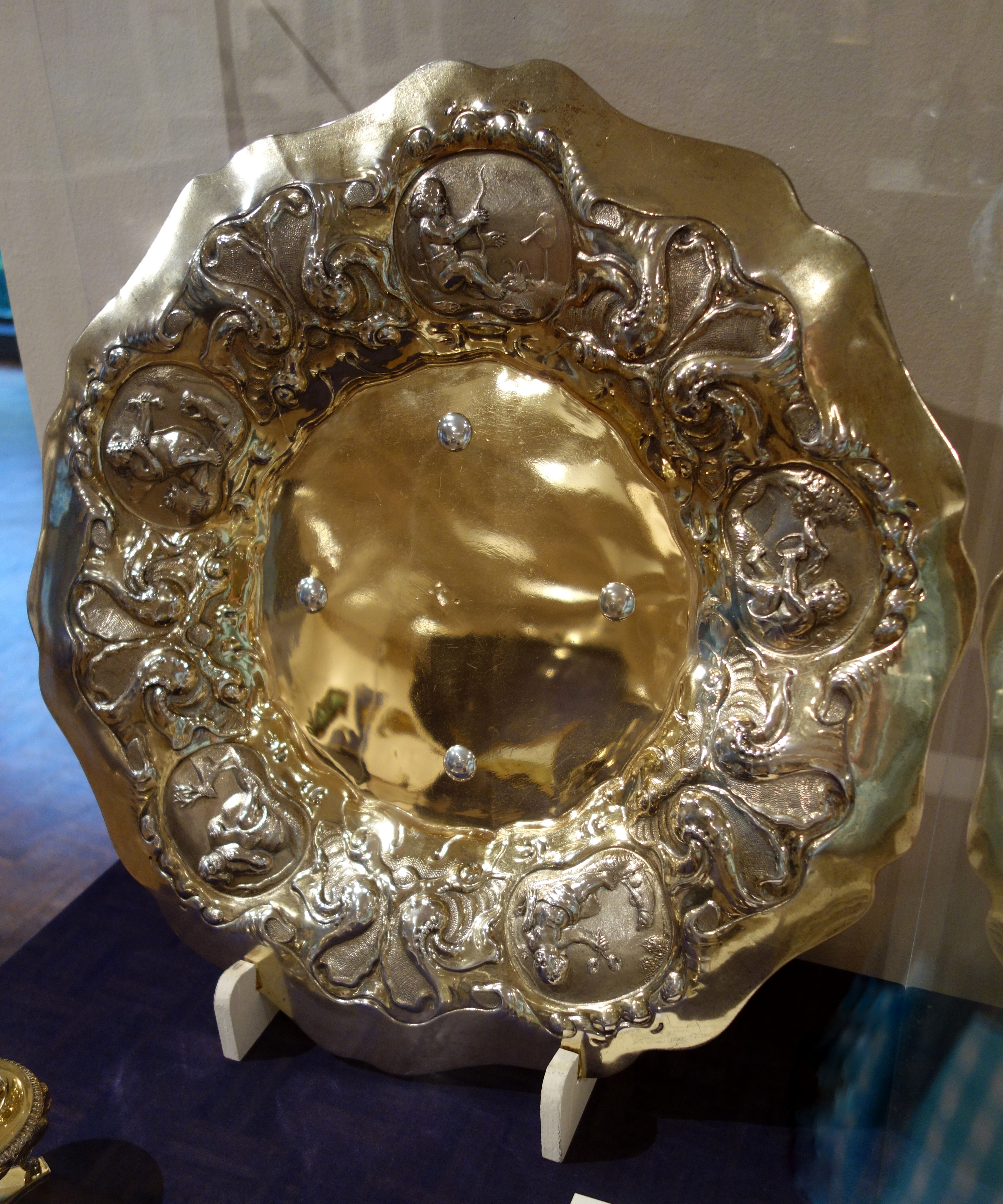 A gilded charger plate in the Huntington Museum of Art, Huntington, West Virginia, USA. This artwork is in the public domain because the artist died more than 70 years ago.